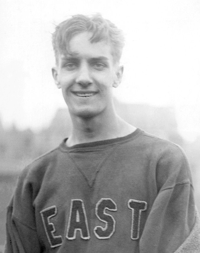 1929 Chicago IL Jack Keller Set World Record in 220 Low Hurdles Press Photo